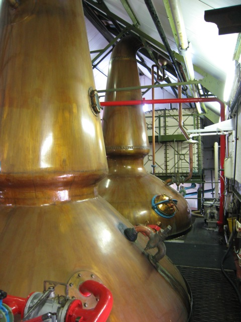 Ardbeg Stills